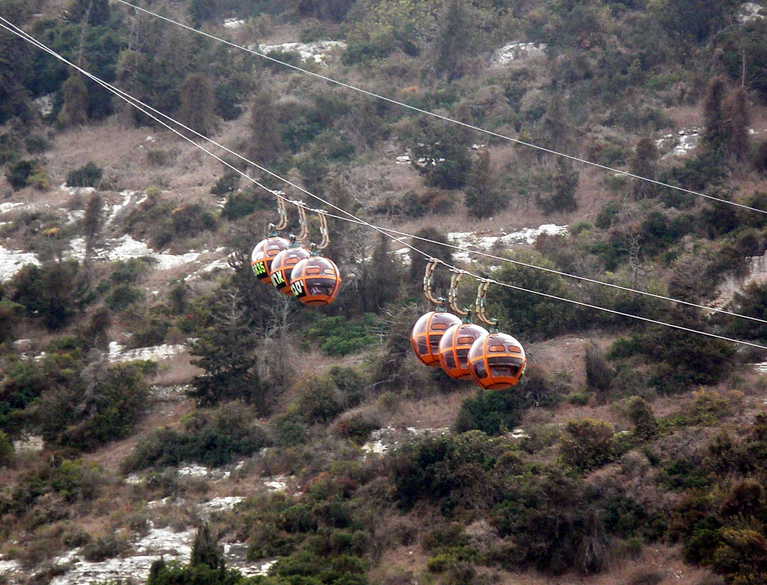 Aerial tramway of Haifa